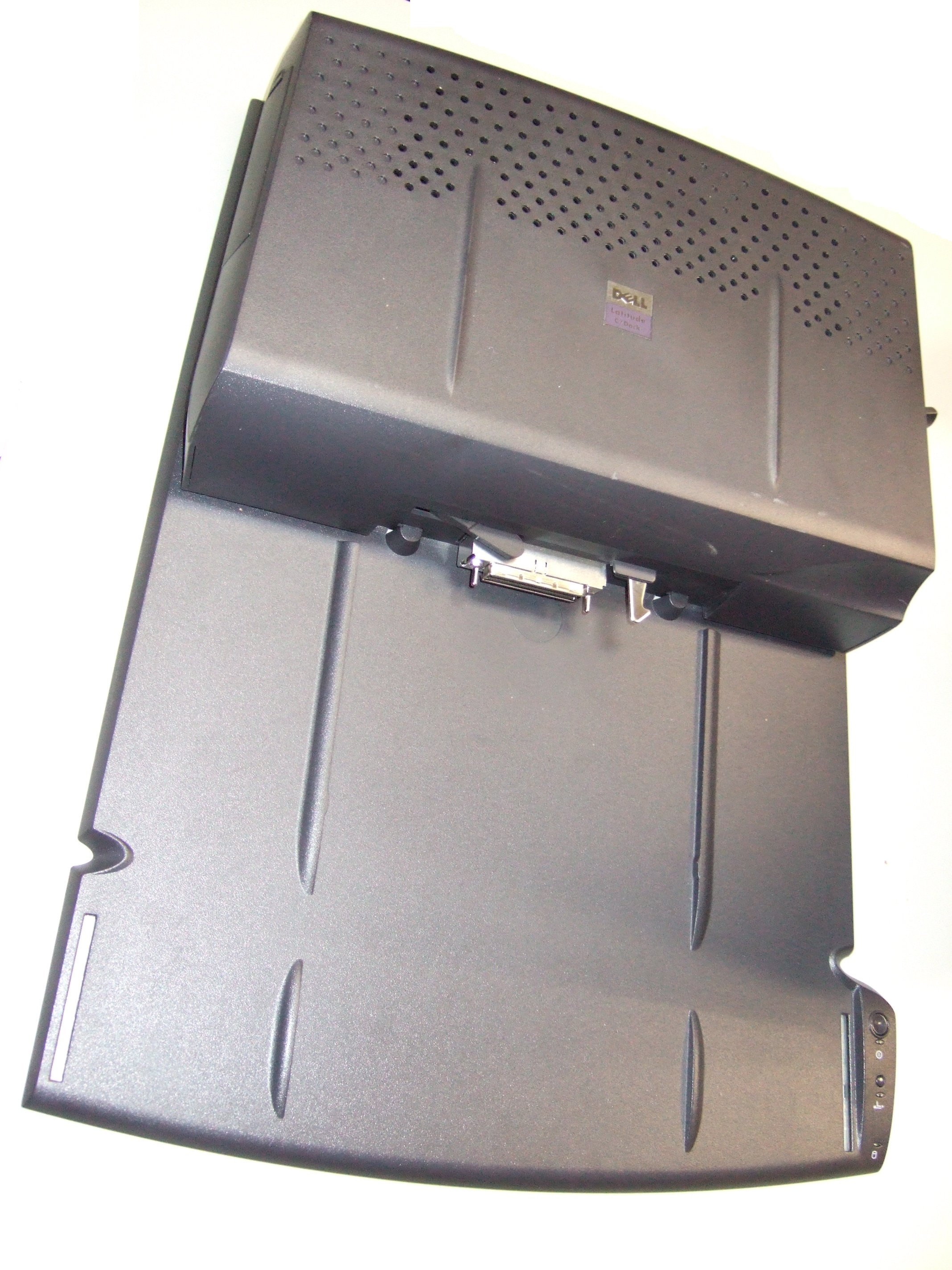 Docking station